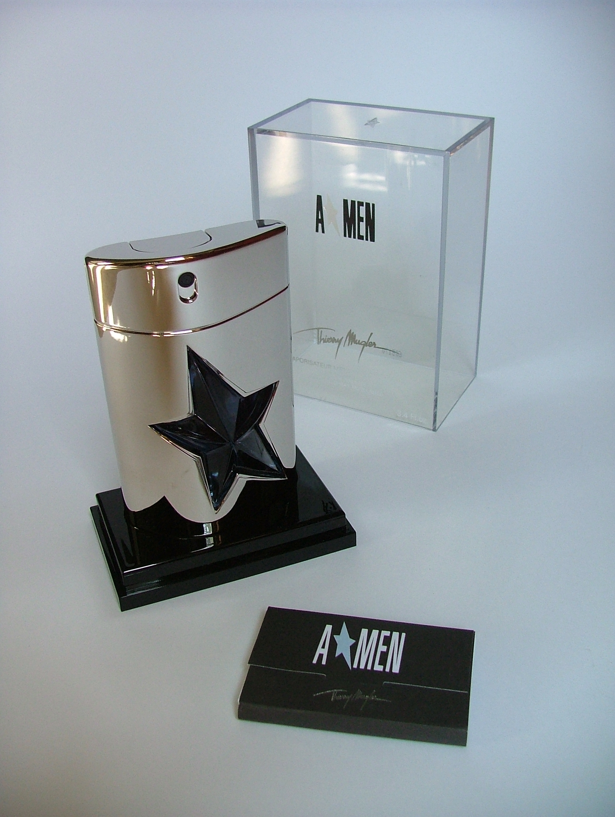 Glass of the parfume "Angel Men" by Thierry Mugler